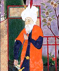 Painting of Mihran Sitad in The Shahnama of Shah Tahmasp